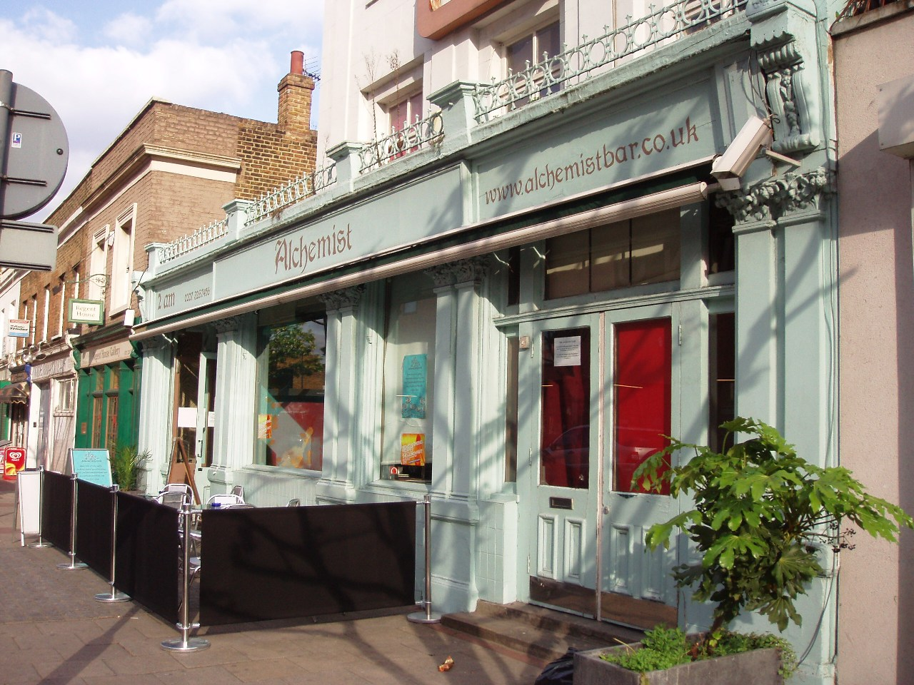 Yet another bar for this busy stretch of road, on the Wandsworth/Battersea borders, since renamed as the Stencil Bar (itself now closed). Demolished in 2015, without permission it seems. Address: 225 St Johns Hill. Former Name(s): The Common Rooms; Mess; The Fishmonger's Arms. Owner: Punch Taverns (former). Links: Beer in the Evening Beer in the Evening (Common Rooms) Qype Dead Pubs (history)